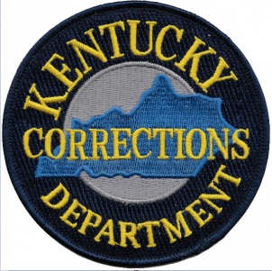 Image is similar, if not identical, to the Kentucky Department of Corrections patch. Made with Photoshop